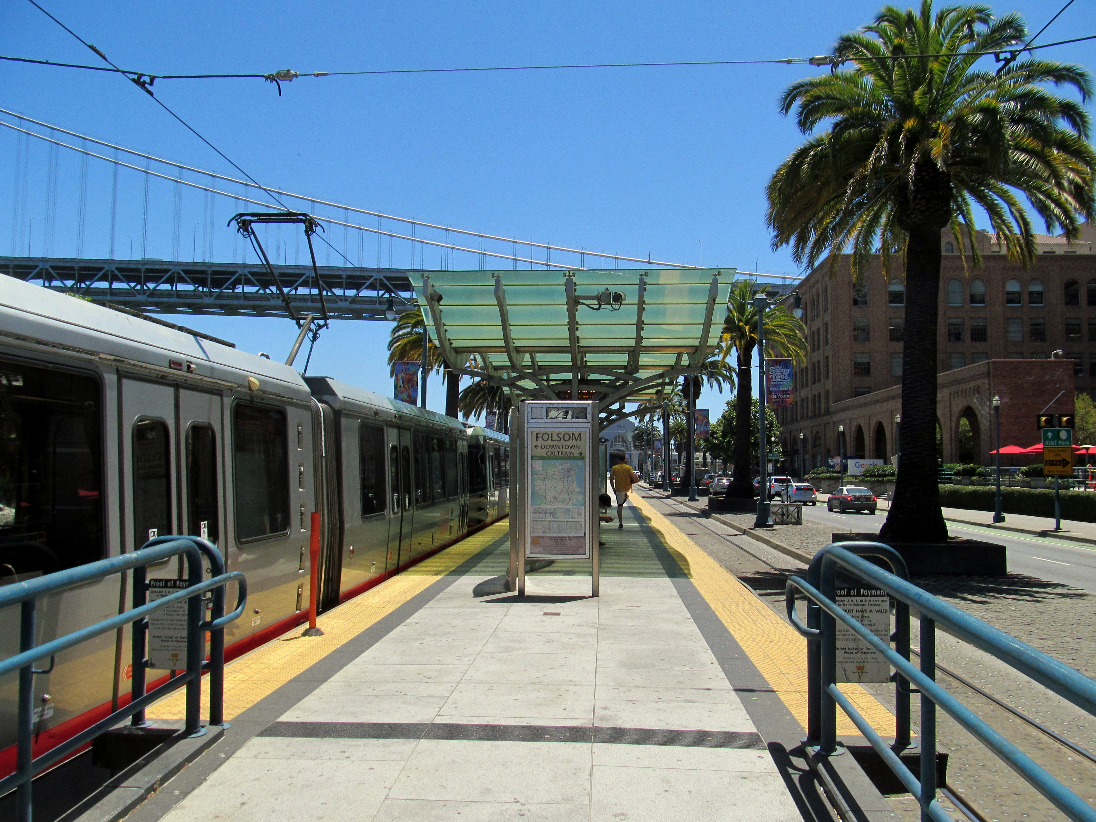 Folsom & The Embarcadero station with a Market Street Subway-bound train in July 2017